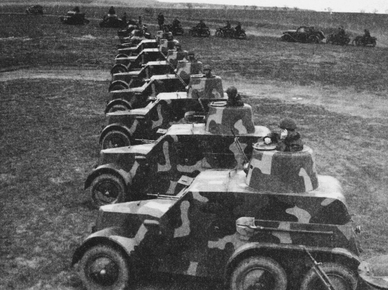 Czechoslovak armored cars vz. 30